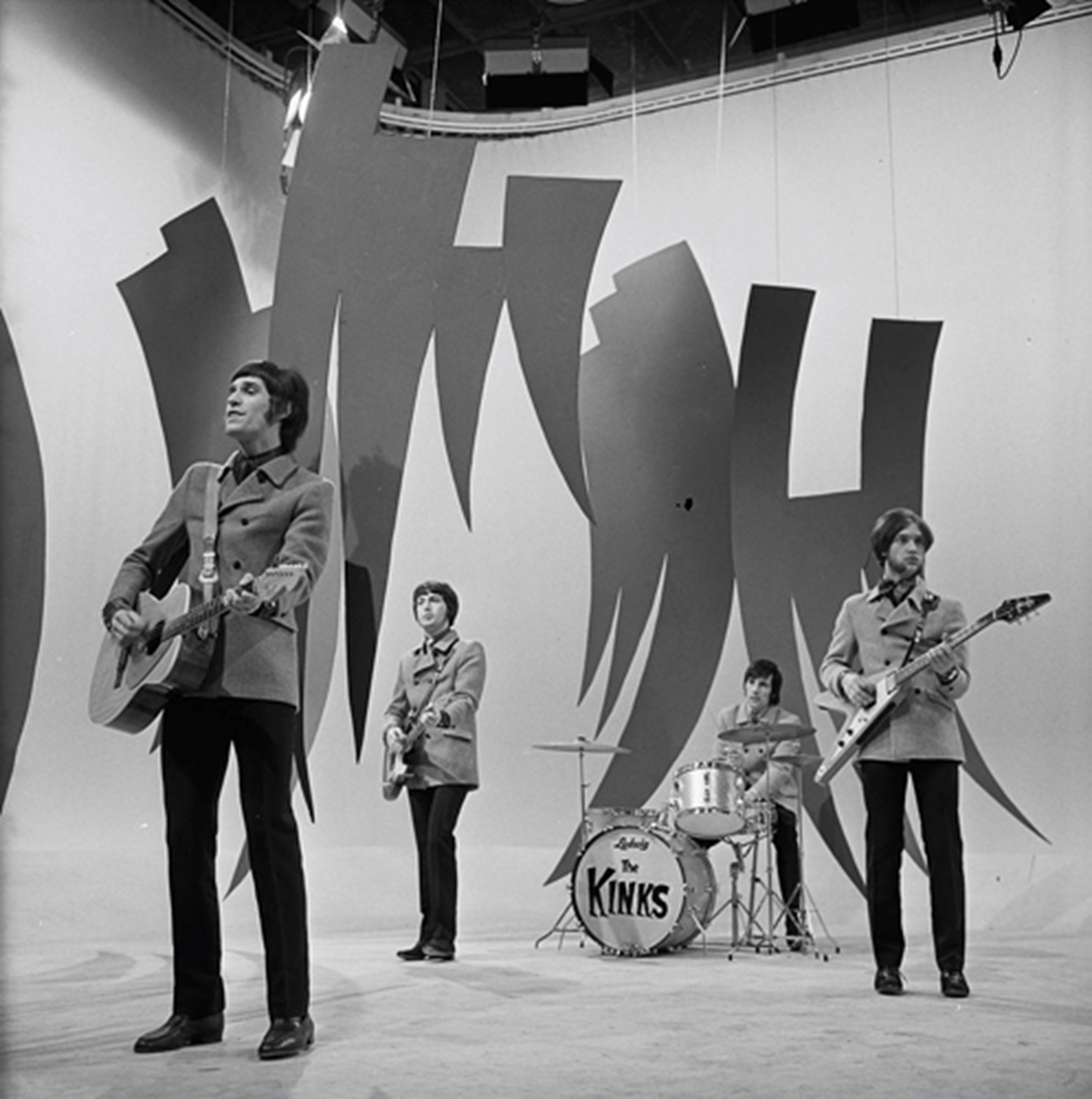 The Kinks performing This is where I belong and Mr. Pleasant. Dutch TV programme Fanclub (29 April 1967)